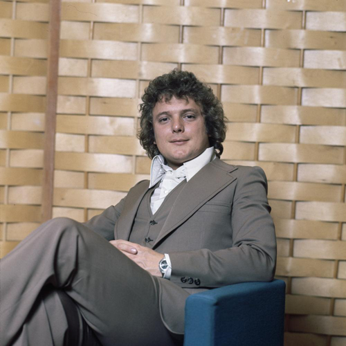 Portrait of Braulio at the day of the Eurovision Song Contest 1976